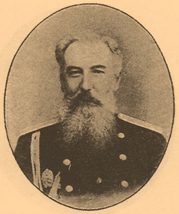 Vitovsky, Vasily Vasilyevich, Illustration from Brockhaus and Efron Encyclopedic Dictionary (1890—1907)